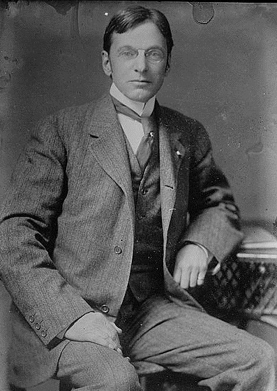 Title: W.G. Rice Creator(s): Bain News Service, publisher Date Created/Published: [between ca. 1910 and ca. 1915] Medium: 1 negative : glass ; 5 x 7 in. or smaller. Summary: Photograph shows William Gorham Rice Sr. (1856-1945) who became a member of the New York Civil Service Commission in 1915. (Source: Flickr Commons project, 2013) Reproduction Number: LC-DIG-ggbain-12700 (digital file from original negative) Rights Advisory: No known restrictions on publication. Call Number: LC-B2- 2655-9 [P&P] Repository: Library of Congress Prints and Photographs Division Washington, D.C. 20540 USA